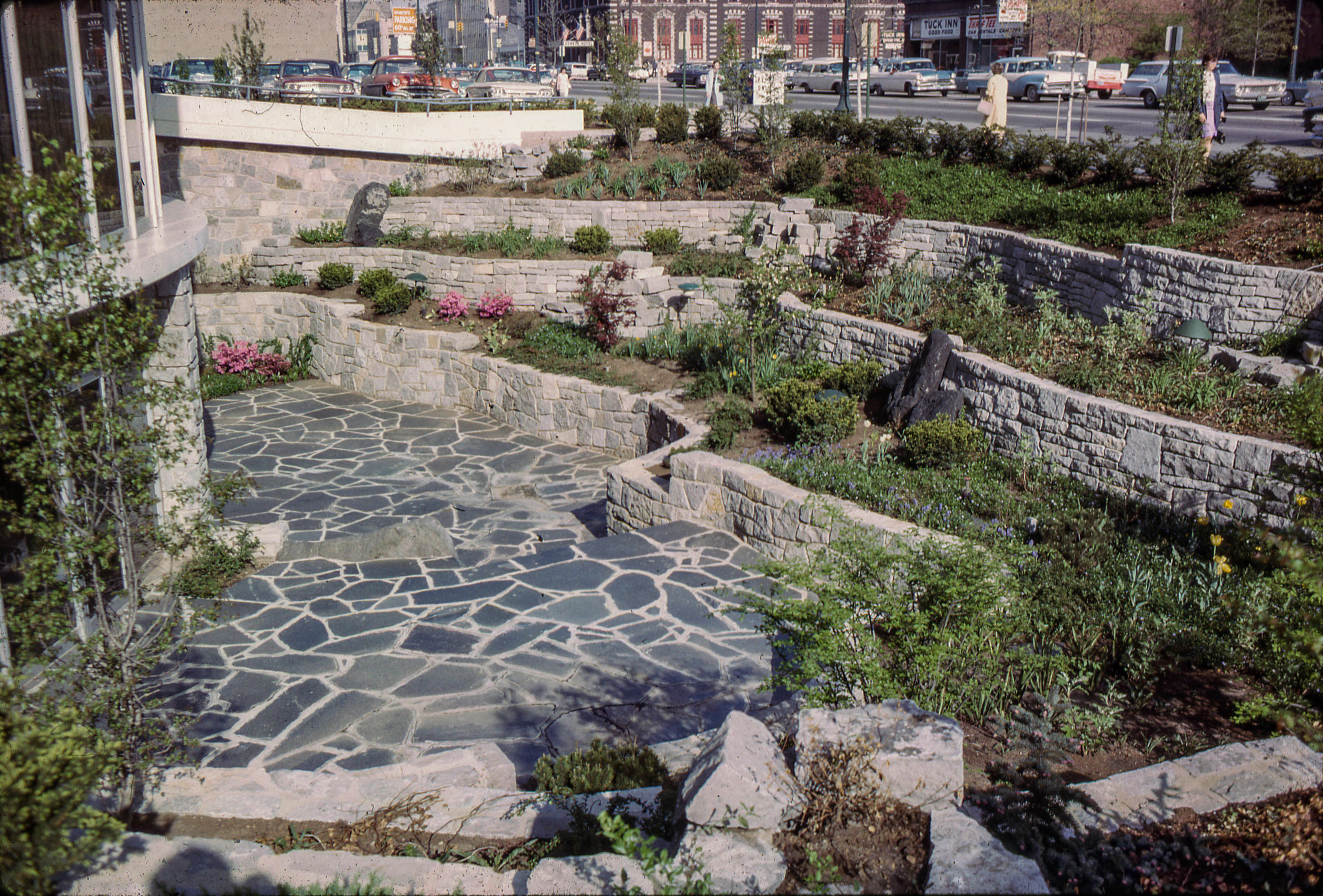 Christopher Inn stone patio. No copyright in the United States.